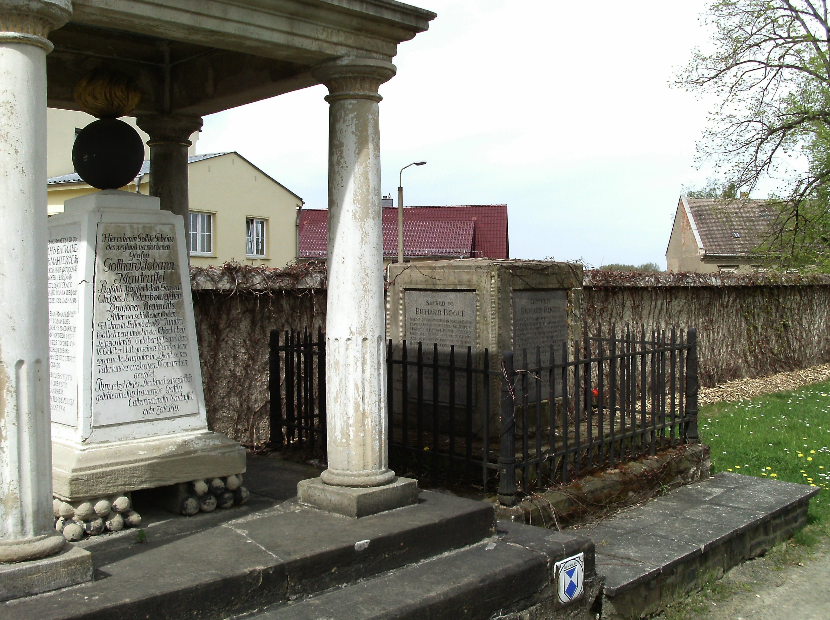 Grave monuments to the russian general Manteuffel and the english captain Bogue at the cemetery of Taucha (Nordsachsen district, Saxony)